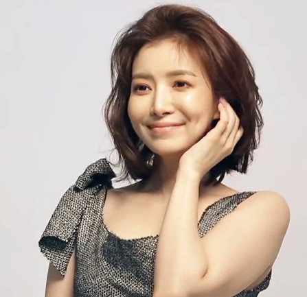 Yoon Se-ah, a South Korean actress